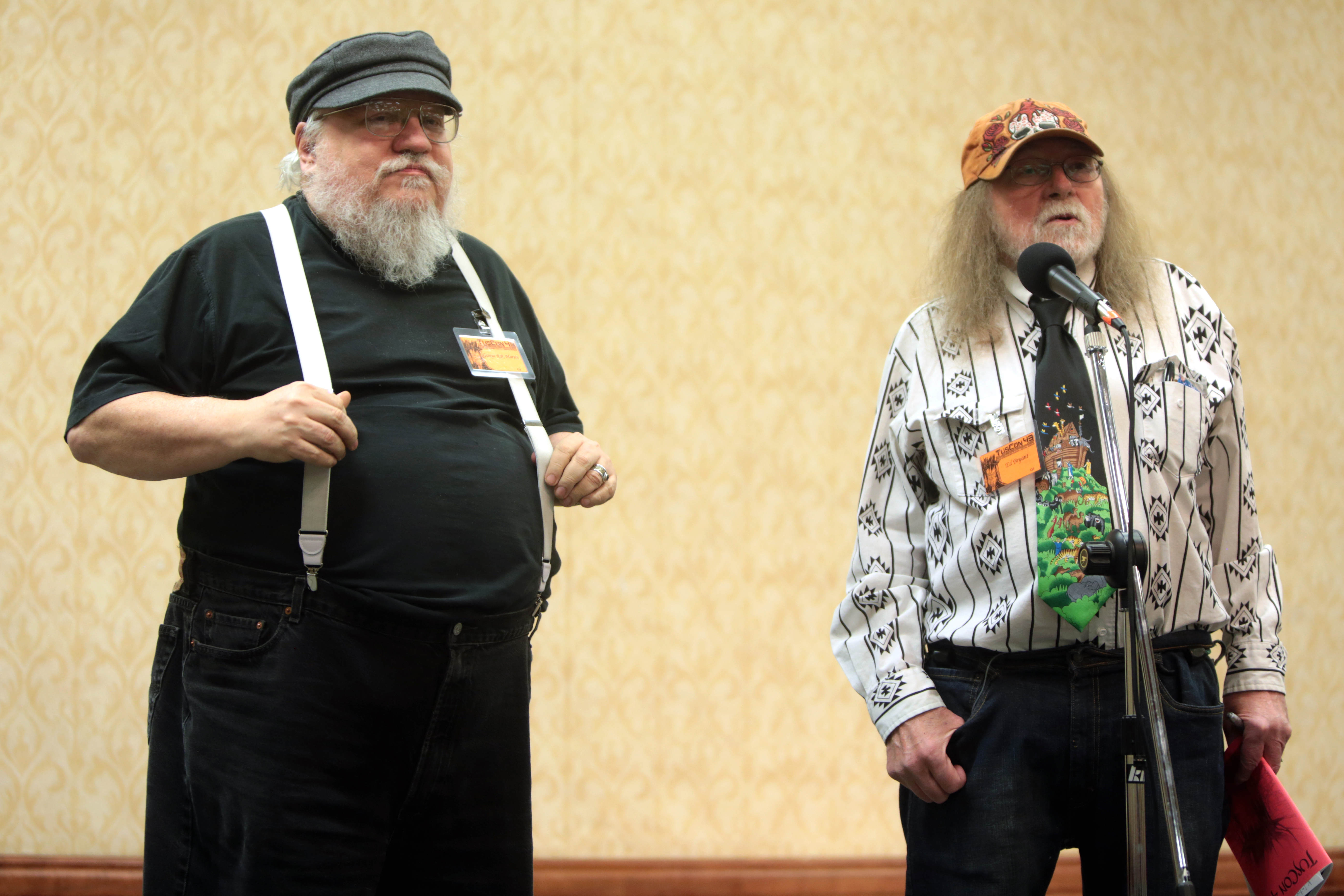 George R. R. Martin and Edward Bryant at an event in Tucson, Arizona.